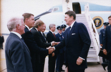 President Ronald Reagan and John Gavin (2-9) President Ronald Reagan, Nancy Reagan, W. W. Basnett, Zell Miller, Jack Connell, Paul Coverdell, Johnny Isakson, Richard Guthman (Not in all photos) (10-20)